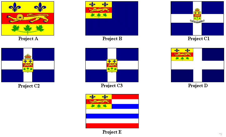 Flag proposals by Burroughs Pelletier (1948). Pelletier, a provincial civil servant in Quebec, was asked to present ideas for a Quebec flag to Premier Duplessis, none of which were adopted. He was, however, also asked to give advice as to what he thought about what became the current design.